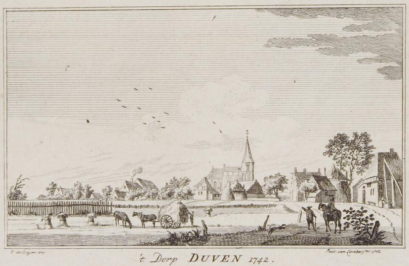 The village Duiven, original by Jan de Beijer